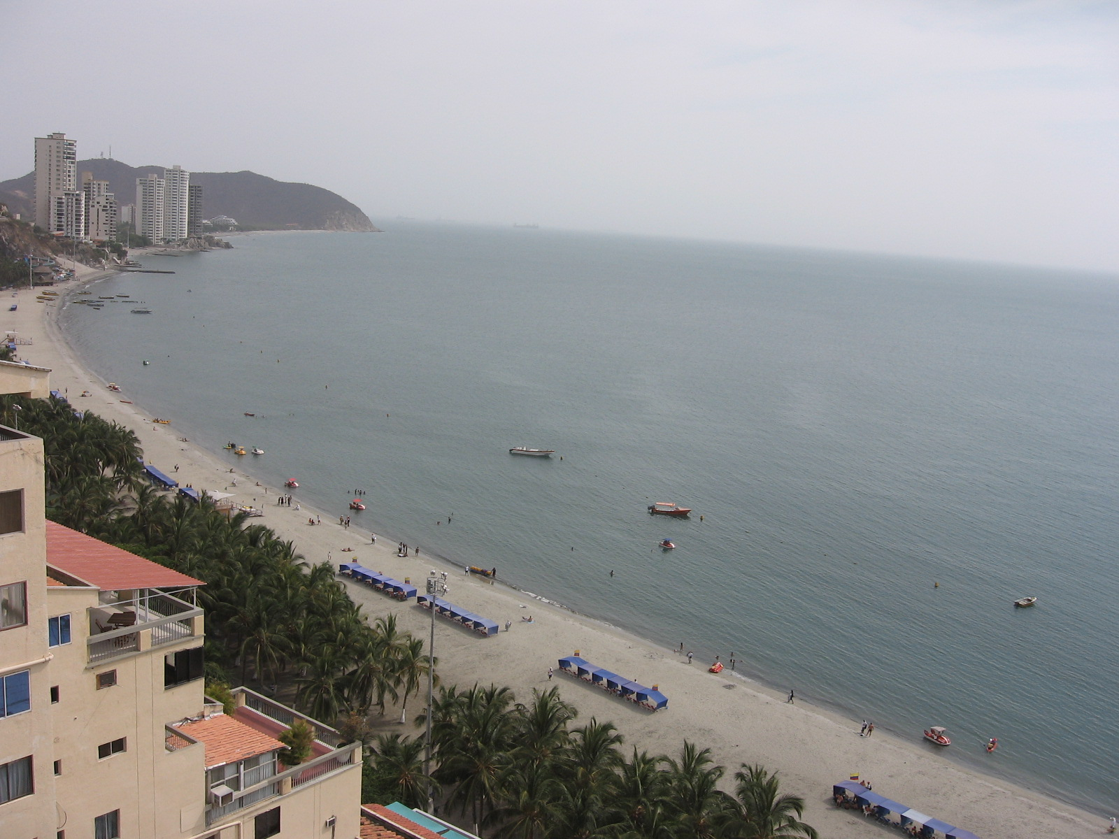 Rodadero in the bay of Santa Marta, Colombia